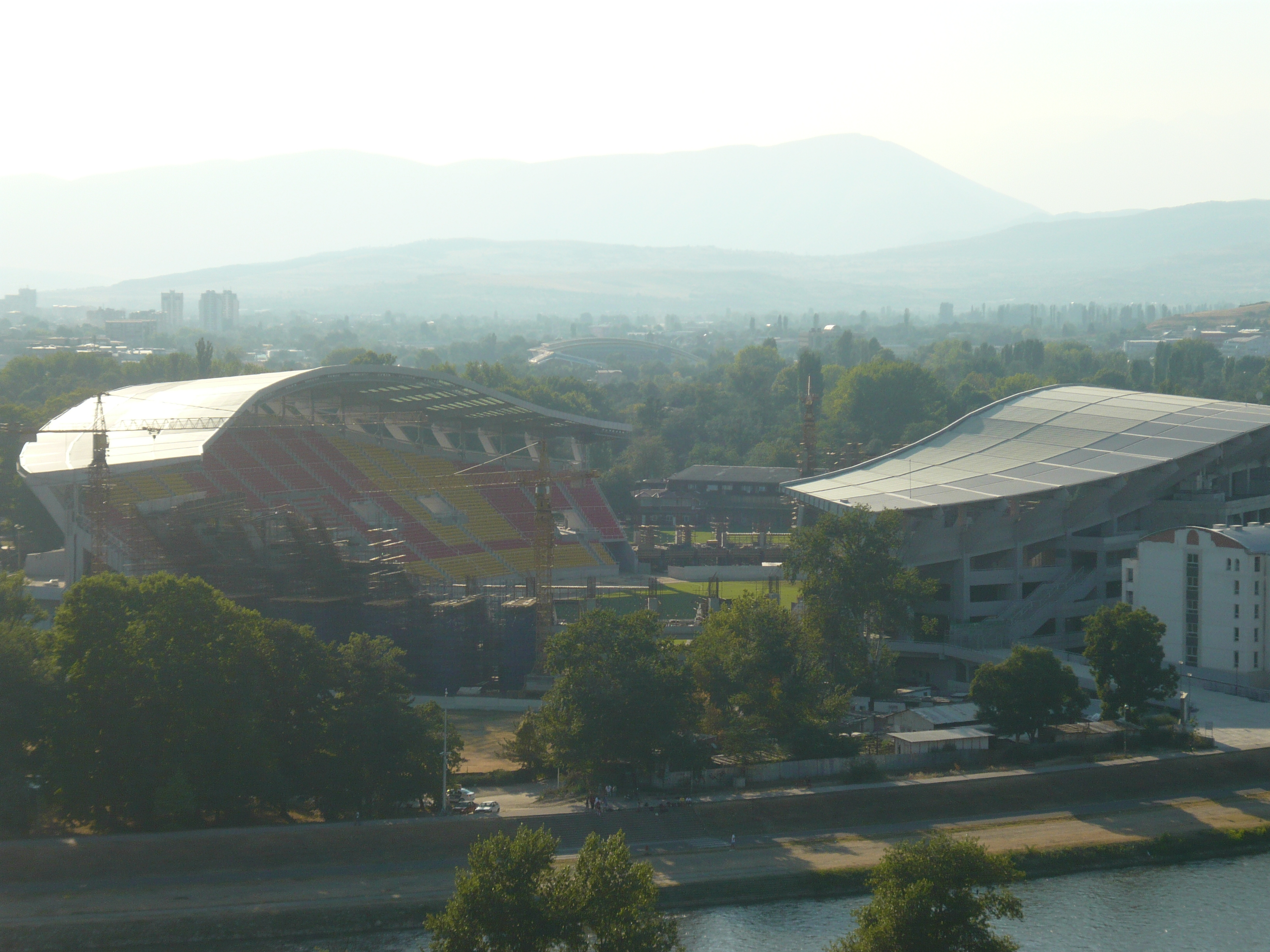 Philip II Arena in Skopje (Macedonia)